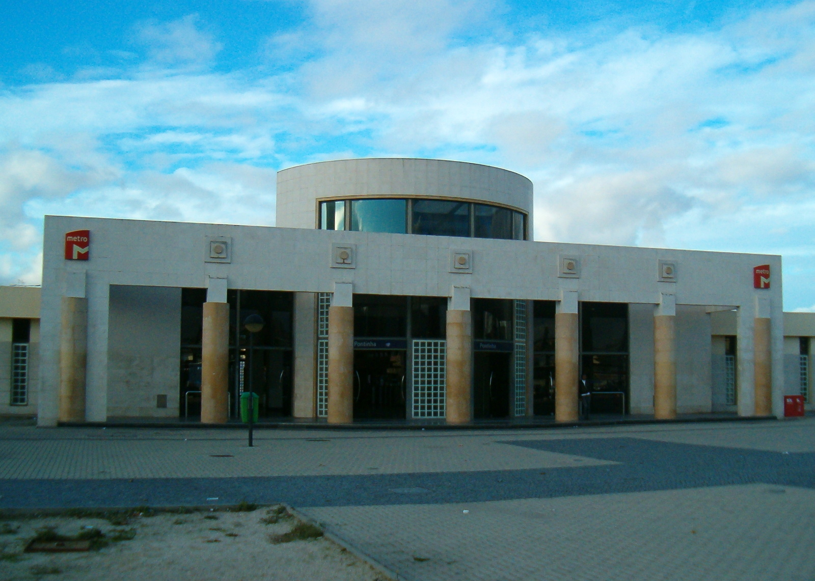 Photo of Pontinha metro station in Lisbon (exterior)